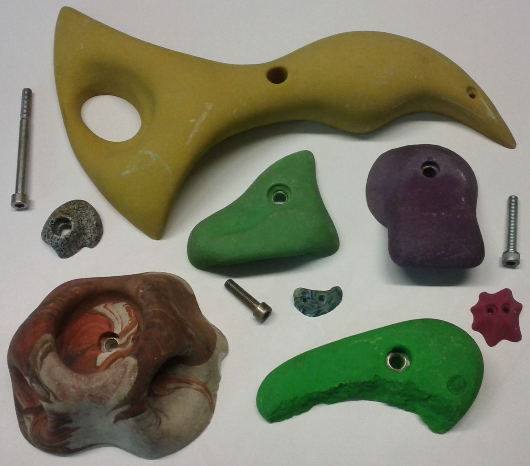 Assorted climbing holds for artificial walls